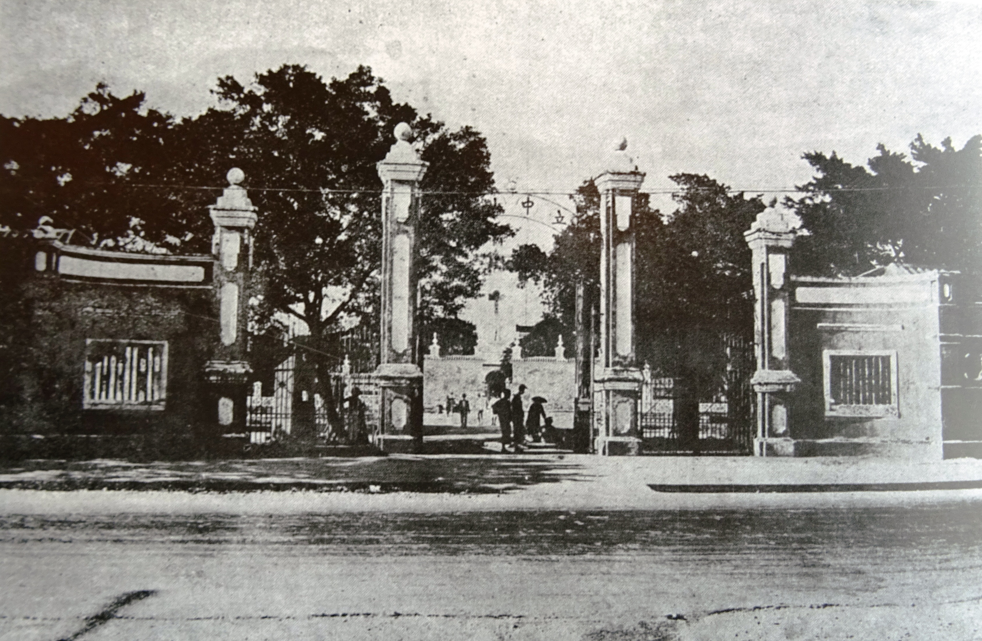 National Sun Yat-sen University at Man Ming Road，Canton, Kwangtung. Today this is the site of Sun Yat-sen Library of Kwangtung Province. 粵語: 喺廣州文明路嘅國立中山大學校門，宜家呢度係廣東省立中山圖書館。